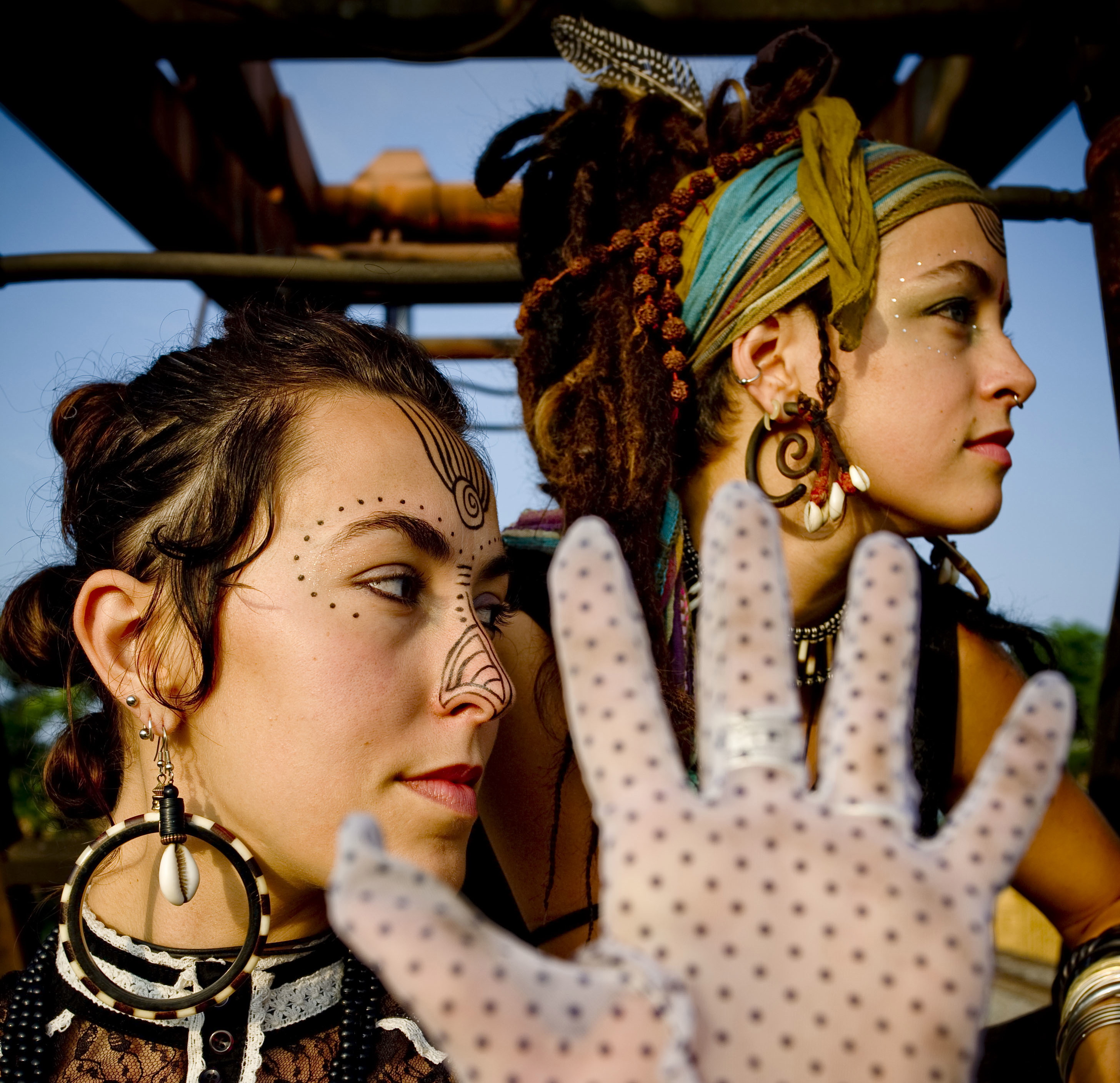 A photo from the farm photo shoot of the members of Rising Appalachia